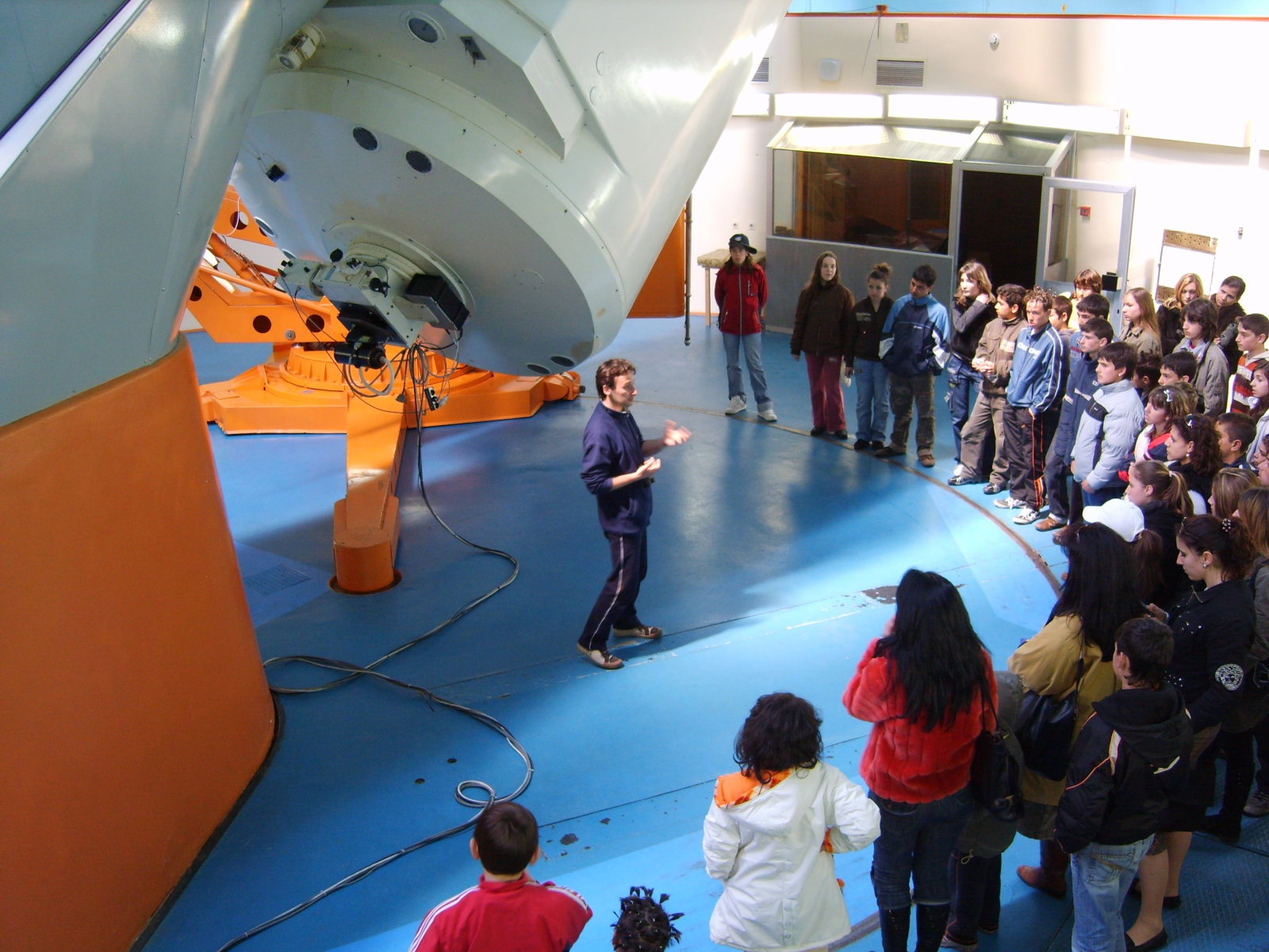 A public lecture at NAO Rozhen